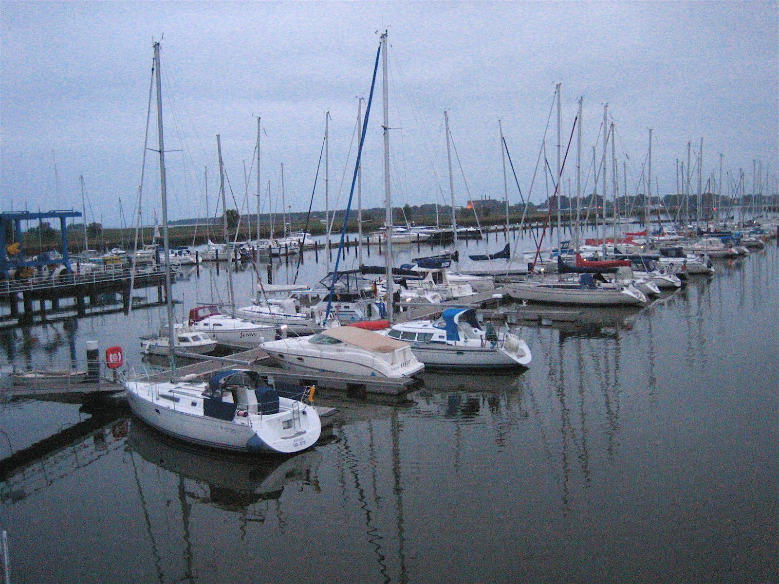 Yacht port at Kröslin, Germany.